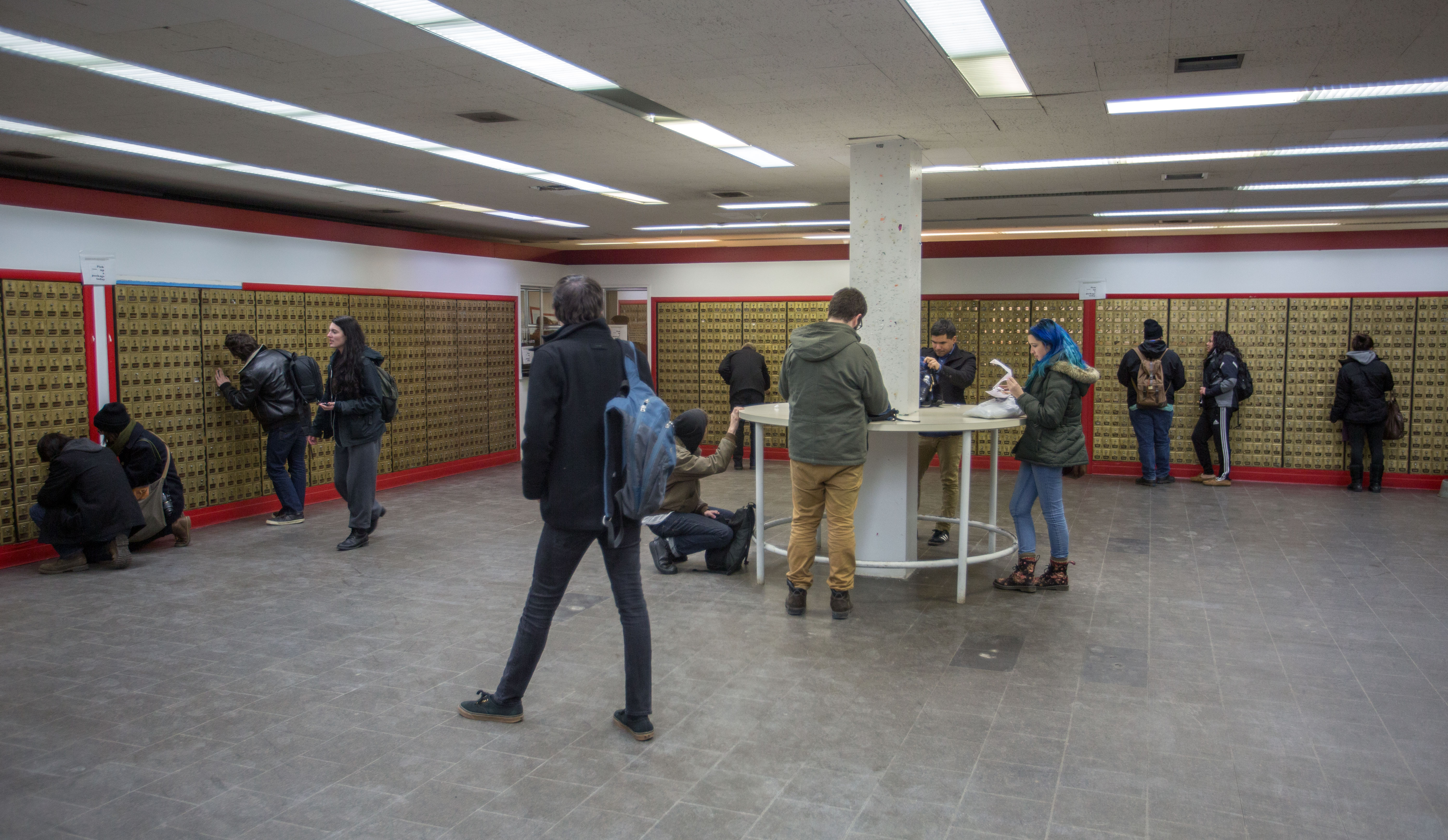 A mailroom in an American University